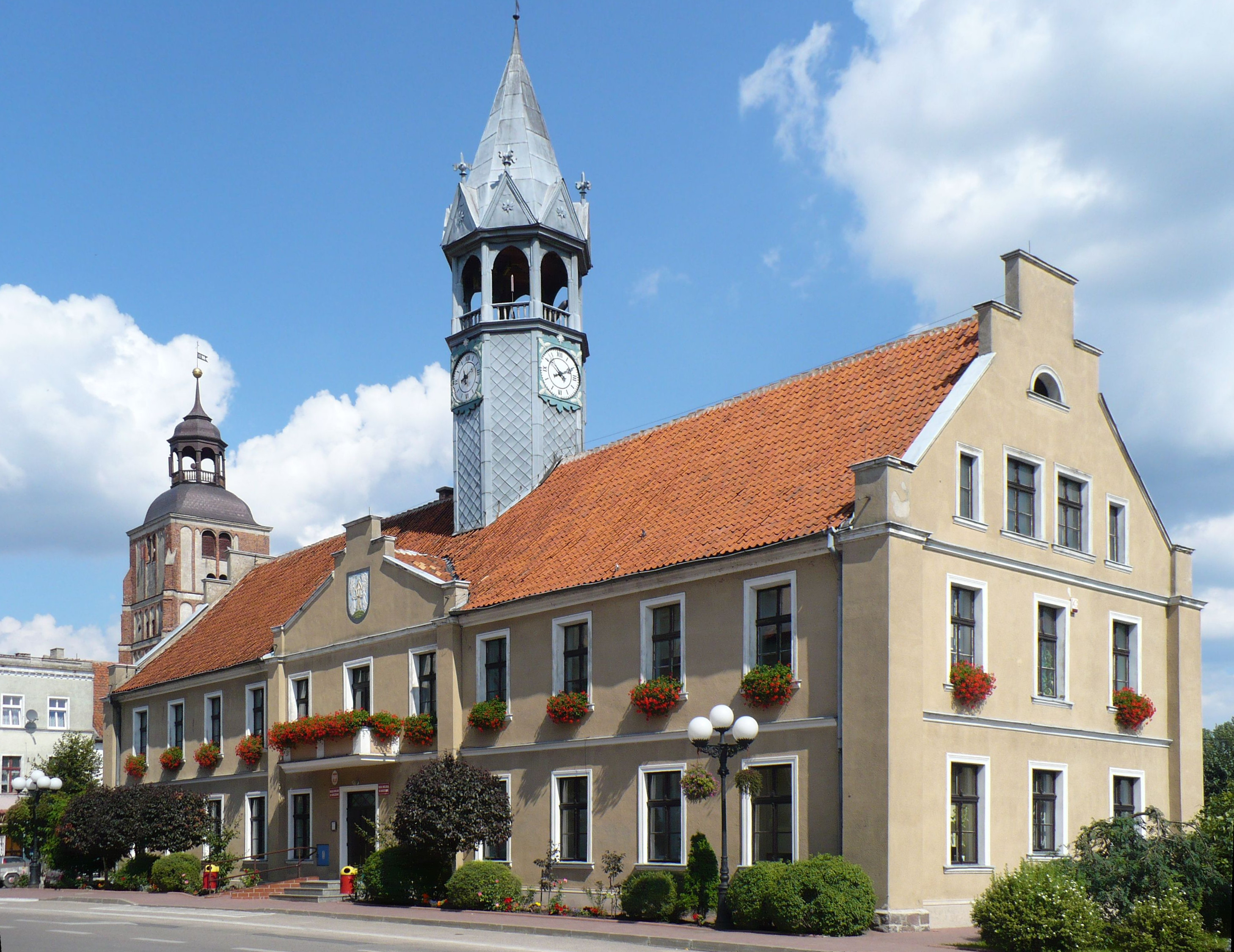 Nineteenth century neo-Gothic town hall of Barczewo. In the background the tower of St. Anne of the late eighteenth and early nineteenth century.